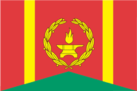 Tverskoy (rayon of Moscow), flag